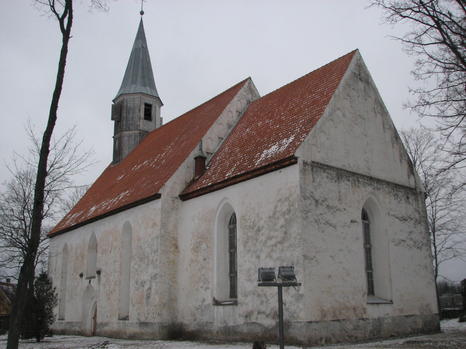 Nõo church, Nõo, Estonia